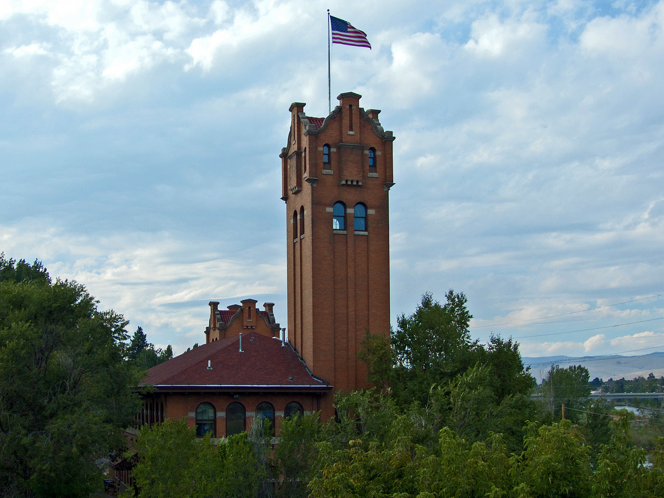 Milwaukee Depot in Missoula, Montana. The tracks of the Chicago, Milwaukee, St. Paul and Pacific Railway were laid across Montana between 1907 and 1909. Completion of this final transcontinental line and the fierce competition it generated renewed interest in the railroads. Its far-reaching effects revitalized the lumber industry, boosted a sagging economy, encouraged agricultural expansion, and precipitated a homesteading boom. Completion of the line through Missoula solidified the town’s role as a major urban and trading center. This splendid brick passenger depot was built in 1910. Its grandeur and stylistic sophistication are indicative of the railroad’s importance to the town. Designed by architect J. A. Lindstrand, it is one of the finest examples of railroad station architecture in Montana, rivaling Chicago, Milwaukee, St. Paul and Pacific Railway stations in Butte and Great Falls. One of Missoula’s few surviving remnants from the era of railroad supremacy, the design is particularly noteworthy for its castle-like appearance enhanced with contemporary poured concrete and Mission Revival style detailing. Five-story and three-story towers crowned with Romanesque Revival style windows, castle-like parapets, and Spanish tile roofs emphasize the monumental proportions of the two depot buildings. Now connected by a modern addition, the two-story building originally accommodated passengers while the one-story building was used for baggage. The depot’s grand interior still boasts 15-foot coffered ceilings with milled wood beams, relief-paneled wainscoting, and elegant molded wood trim.